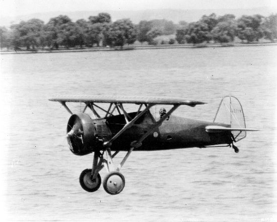 Boeing XF5B-1